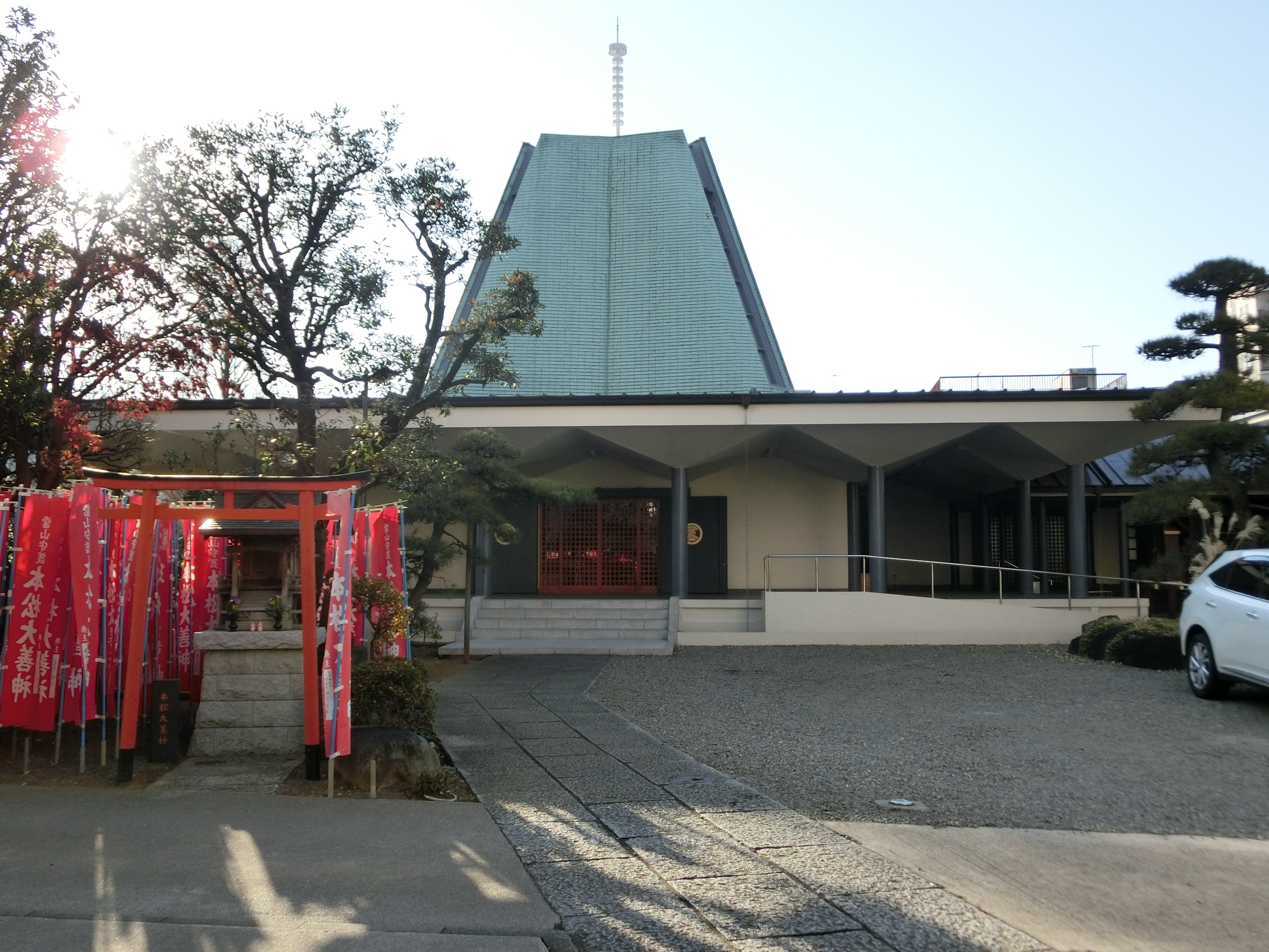 Renge-ji (Bunkyo)